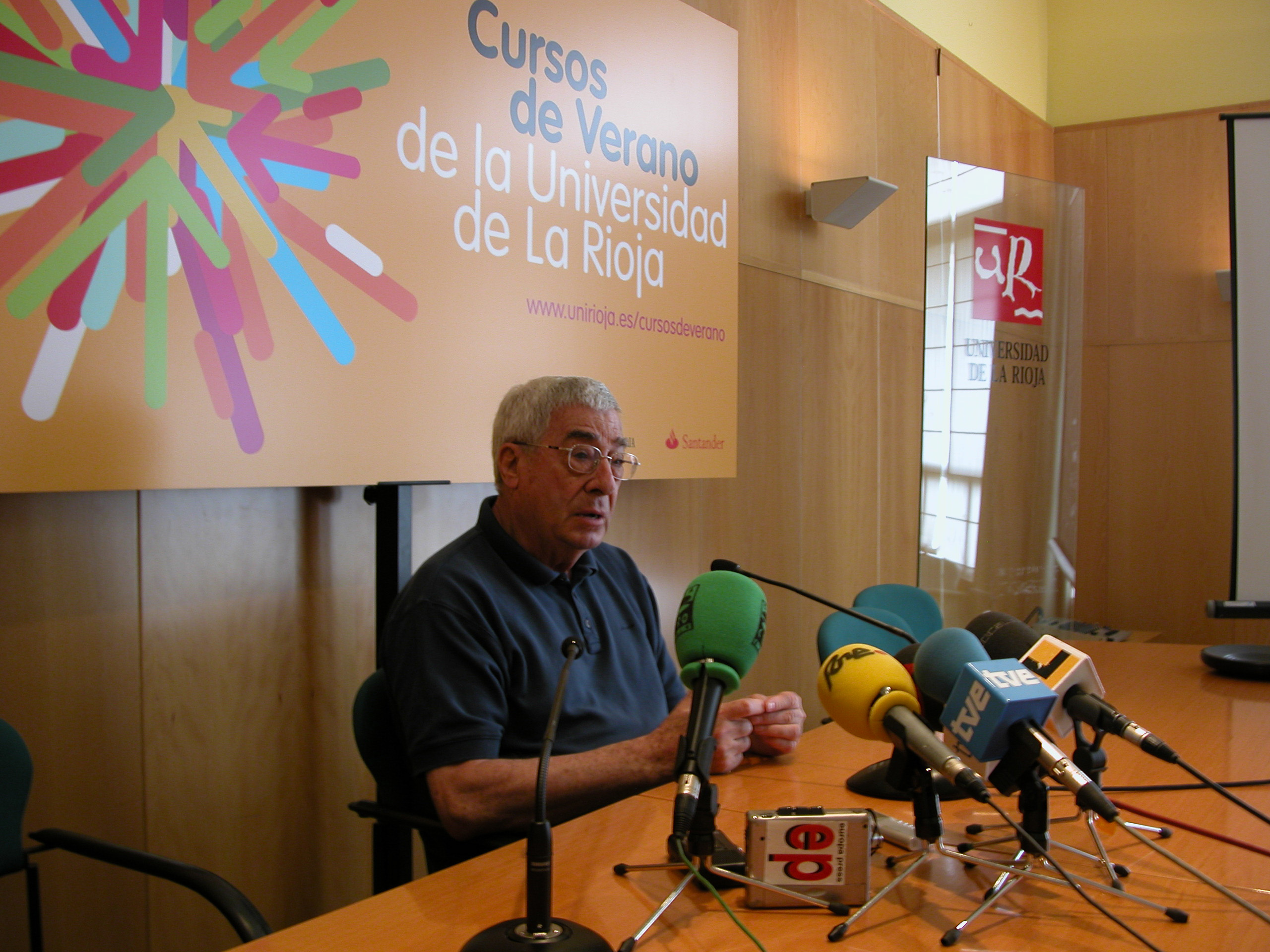 Rafael Azcona, in the School Summer of the Universidd of La Rioja (2006).